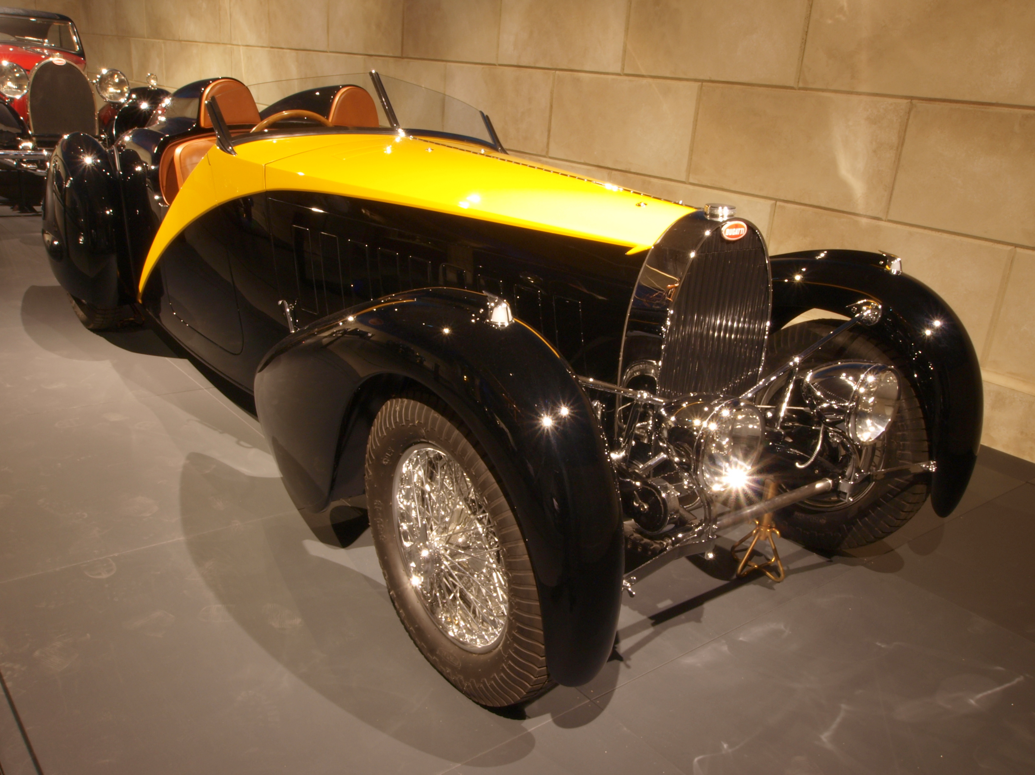 Bugatti Type 57 "Grand Raid" Roadster coachbuilt by Gangloff. Photographed at the Louwman museum / Louwman Collection, The Netherlands.